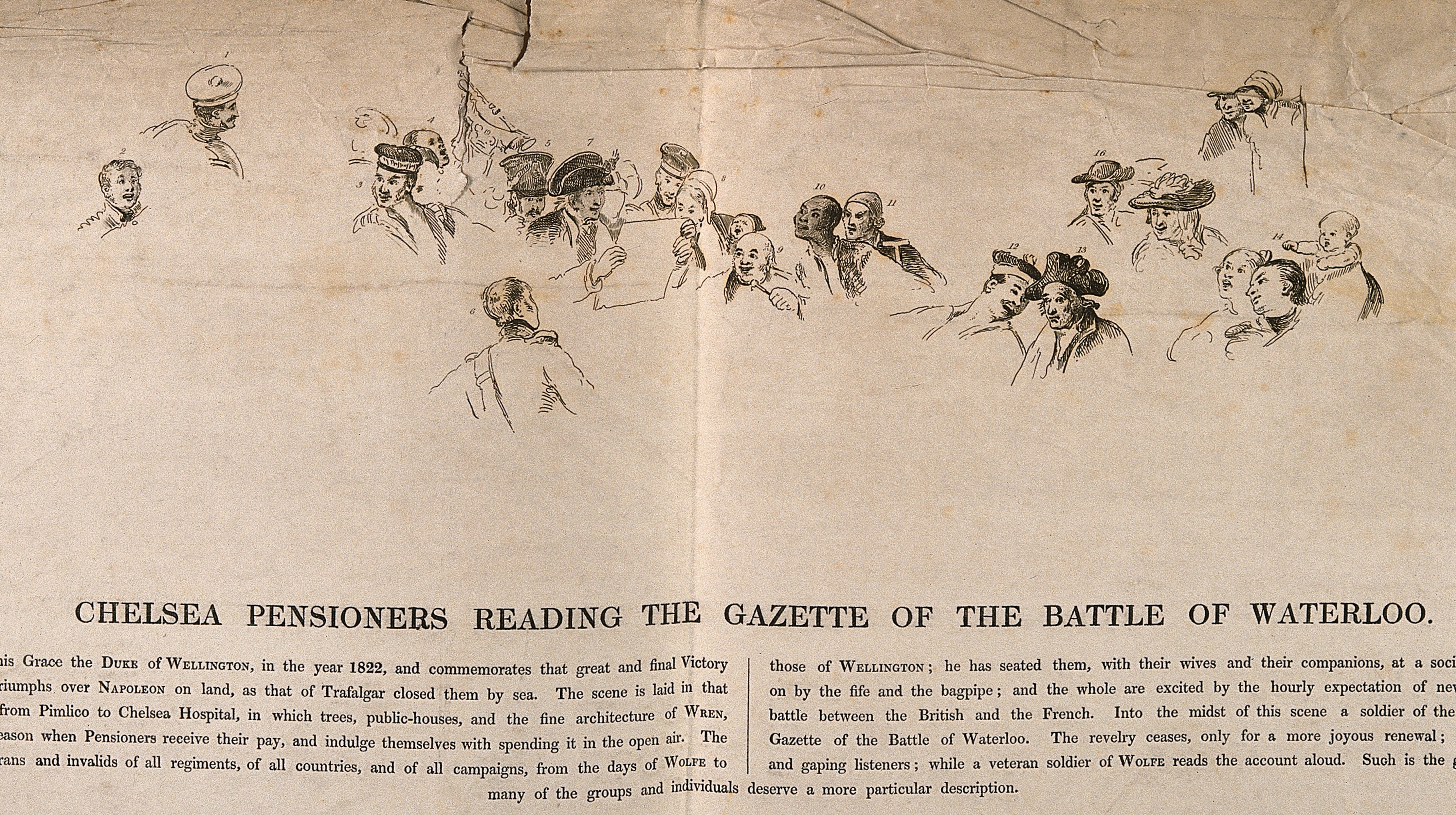 Chelsea Pensioners and others hearing the news of Wellington's victory at Waterloo. Etching. Iconographic Collections Keywords: Christopher Wren; Royal Hospital (Chelsea); David Wilkie